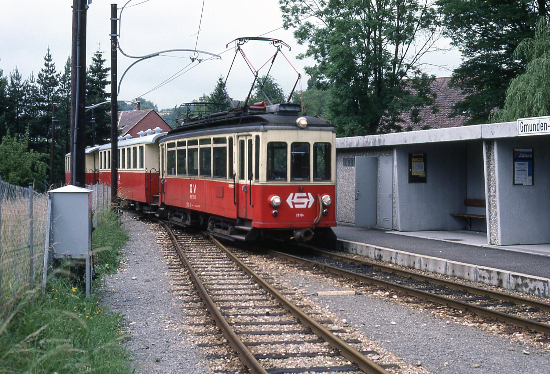 The old Gmunden Traundorf terminus of the Traunseebahn.